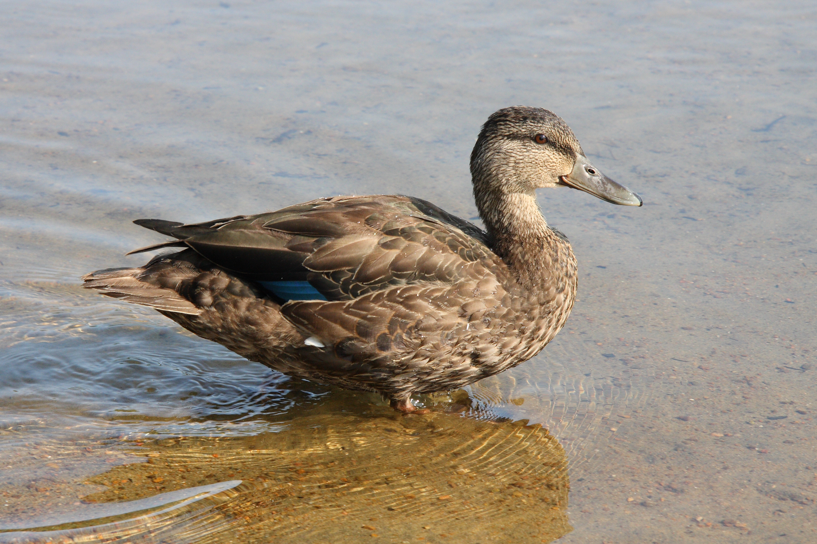 American Black Duck (Anas rubripes), immature, Wapizagonke lake, La Mauricie National Park, Quebec, Canada